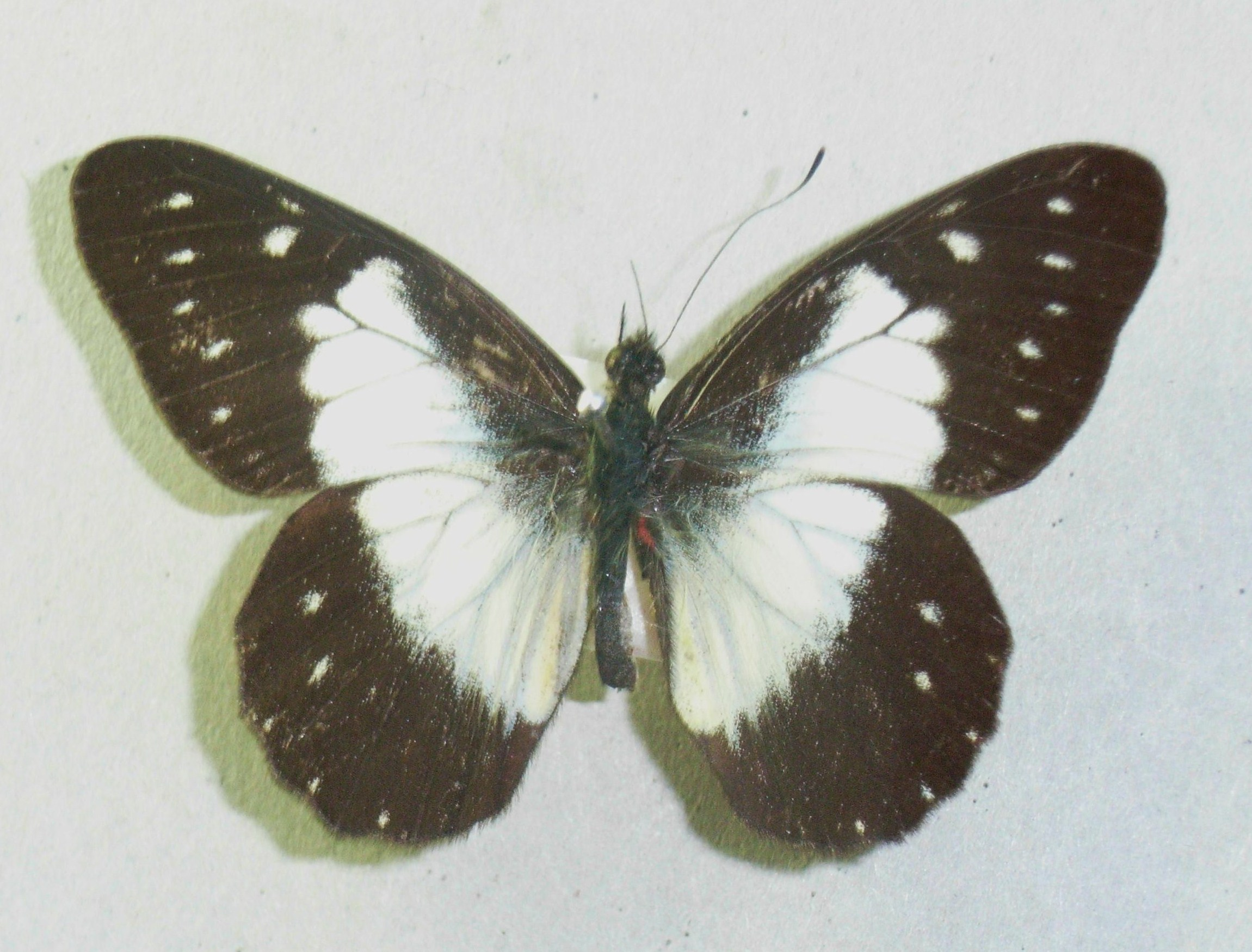 Catasticta sisamnus:Pierinae:Pieridae